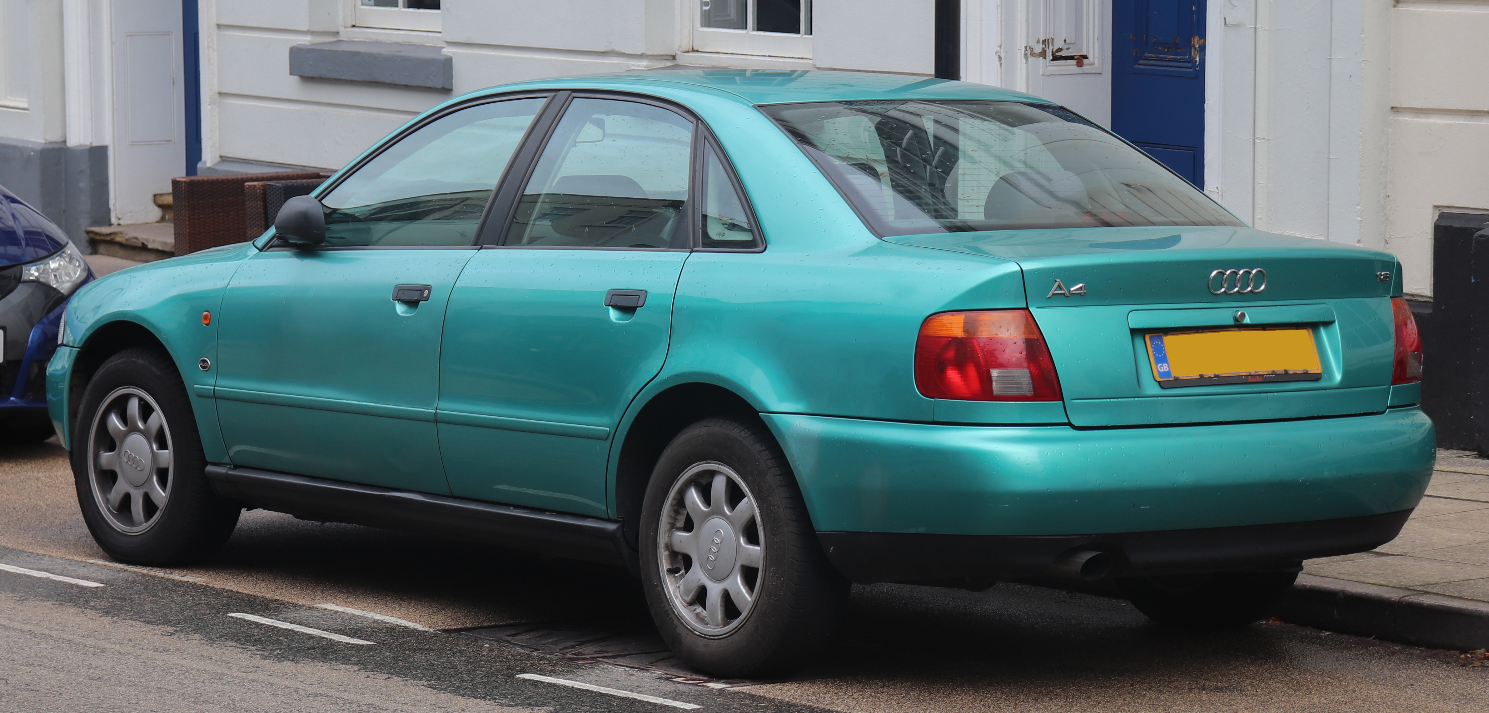 1996 Audi A4 SE 1.8 Rear Taken in Warwick